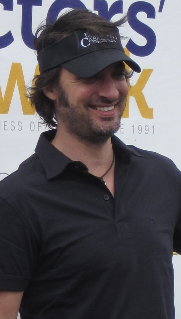 Annie Wershing (24) & Stephen Full (I'm In The Band) arrive at the 8th Annual Hack n' Smack Celebrity Golf Tournament in support of Melanoma. For more information on the Hack n' Smack Celebrity Golf Tournament